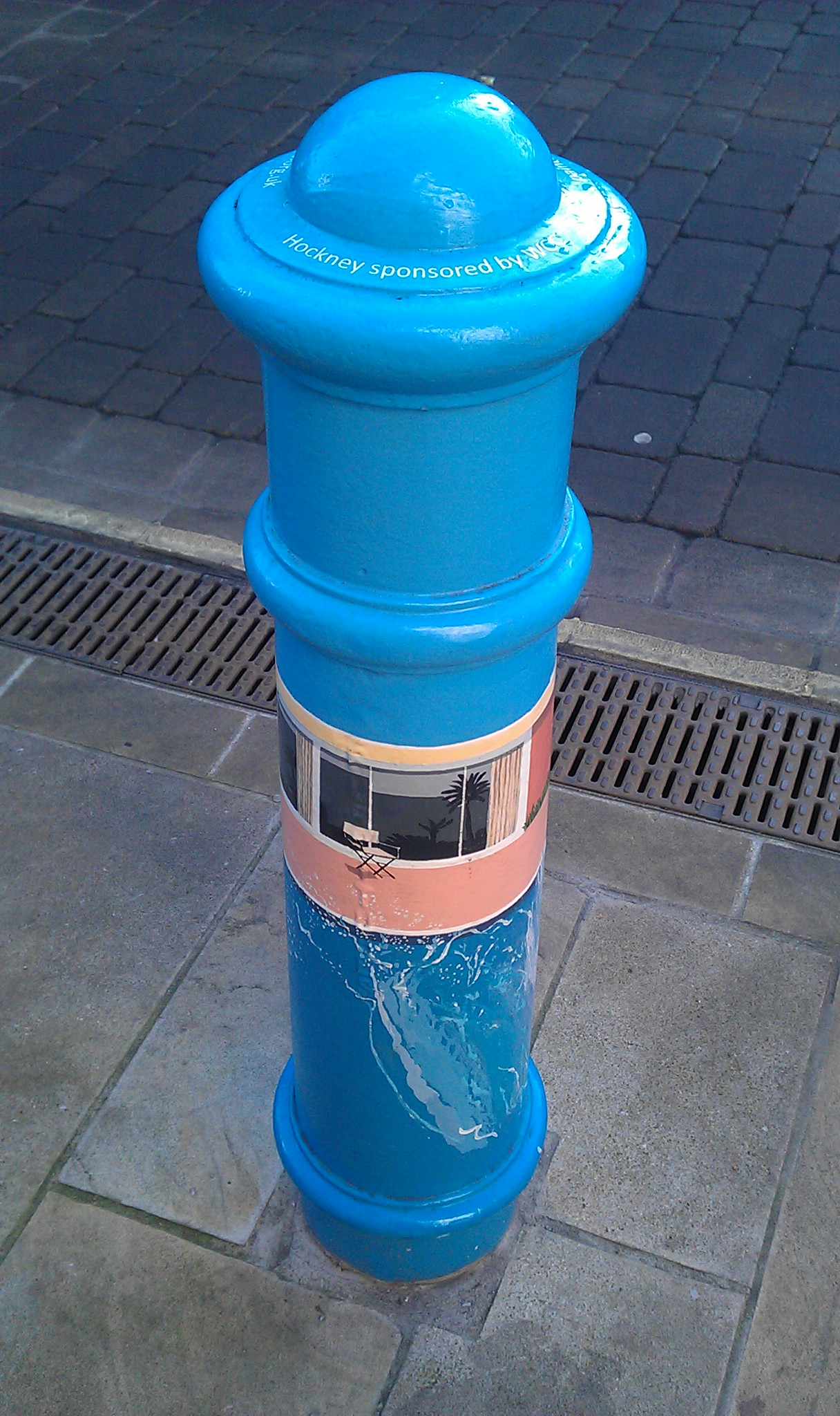 A bollard in Winchester, England, painted in the style of A Bigger Splash by David Hockney. This is one of a series, on the corner of Great Minster Street and The Square, painted by